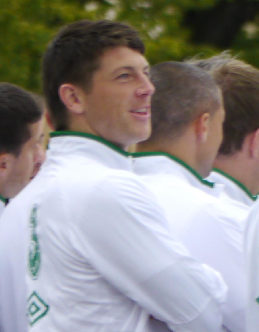 plgh12_0605514